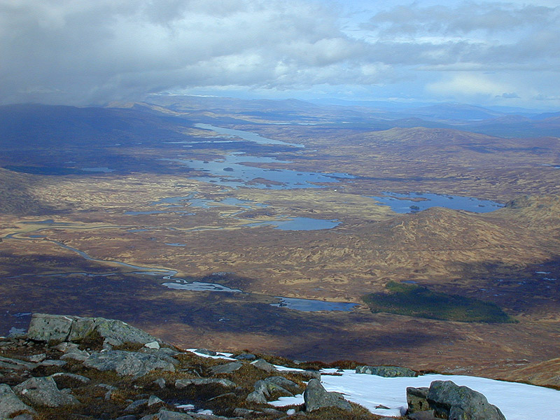 View northeast from Stob a' Choire Odhair This vantage point gives a remarkable view of Rannoch Moor, with Loch Ba in the centre and Loch Laidon in the distance.